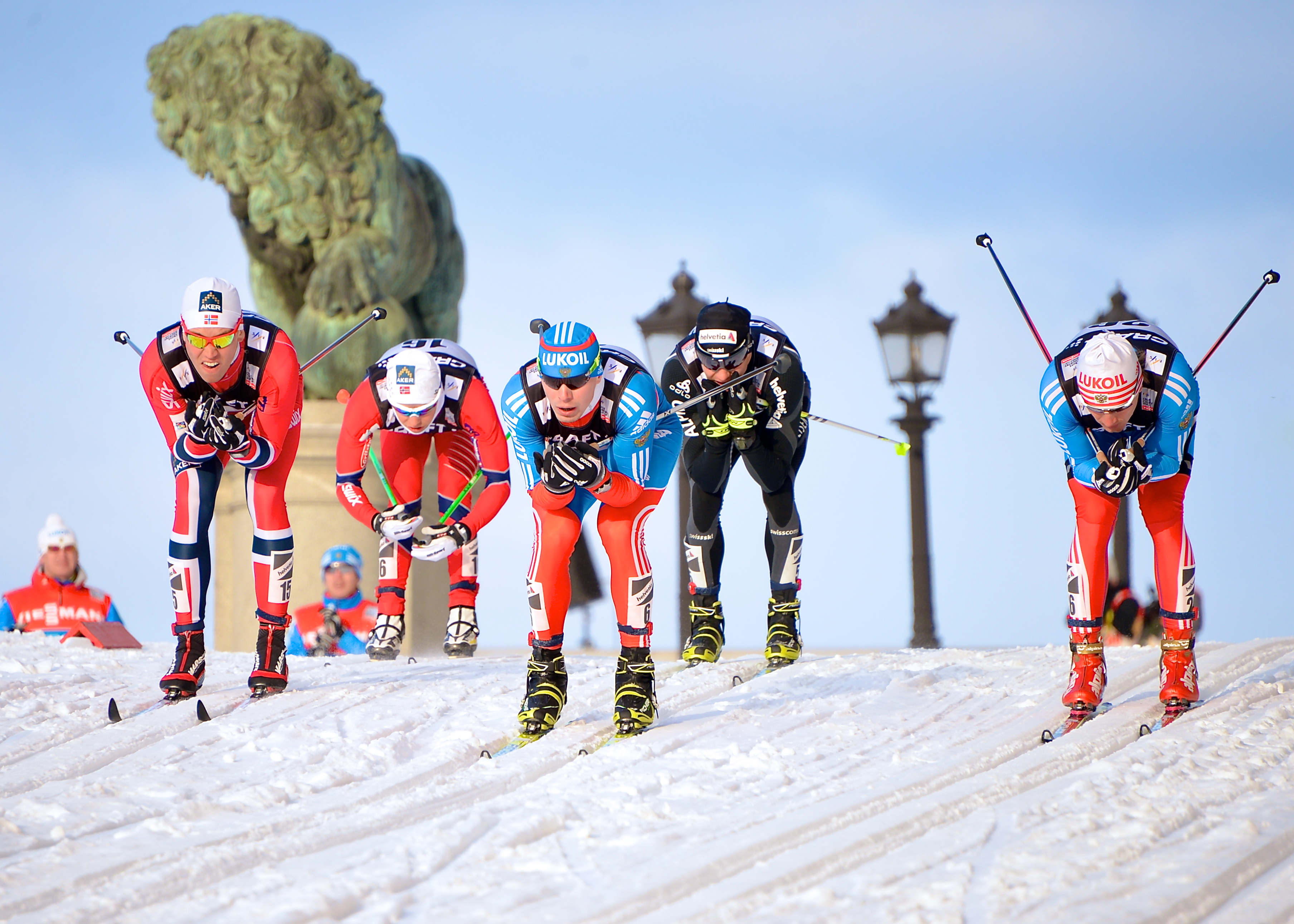 Royal Palace Sprint in Stockholm March 20, 2013